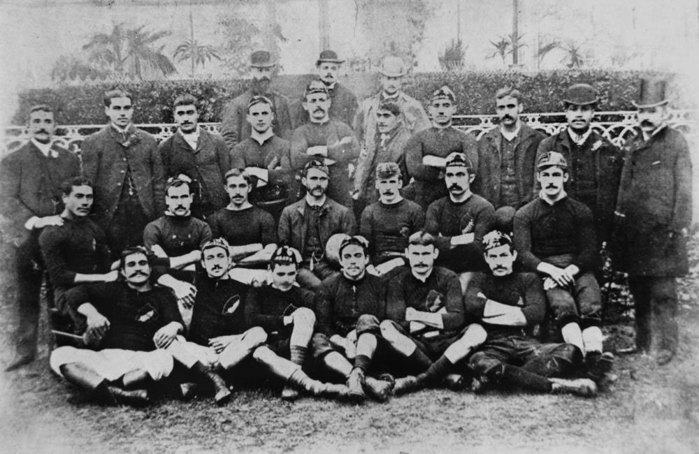 New Zealand native rugby union team, prior to a match against Middlesex at Lord Sheffield's Park on 20 October 1888. Back row - T. Ayton (Promoter), R. Maynard, G. Goldsmith. Second row - Jack Lawlor, David Stewart, Wiri Nehua, Harry Lee, George Williams, Teo Rene, Wi Karauria, William Warbrick, E. Ihimaira, James Scott (Manager). Third row - Richard Taiaroa, William Elliott, Thomas Ellison, Joe Warbrick (Captain), Edward McCausland, W. Anderson, Patrick Keogh Bottom row - Arthur Warbrick, William Wynyard, David Gage, Fred Warbrick, Charles Madigan, Alexander Webster. George Wynyard and Alfred Warbrick were in London when the photograph was taken. (Description supplied with photograph.).